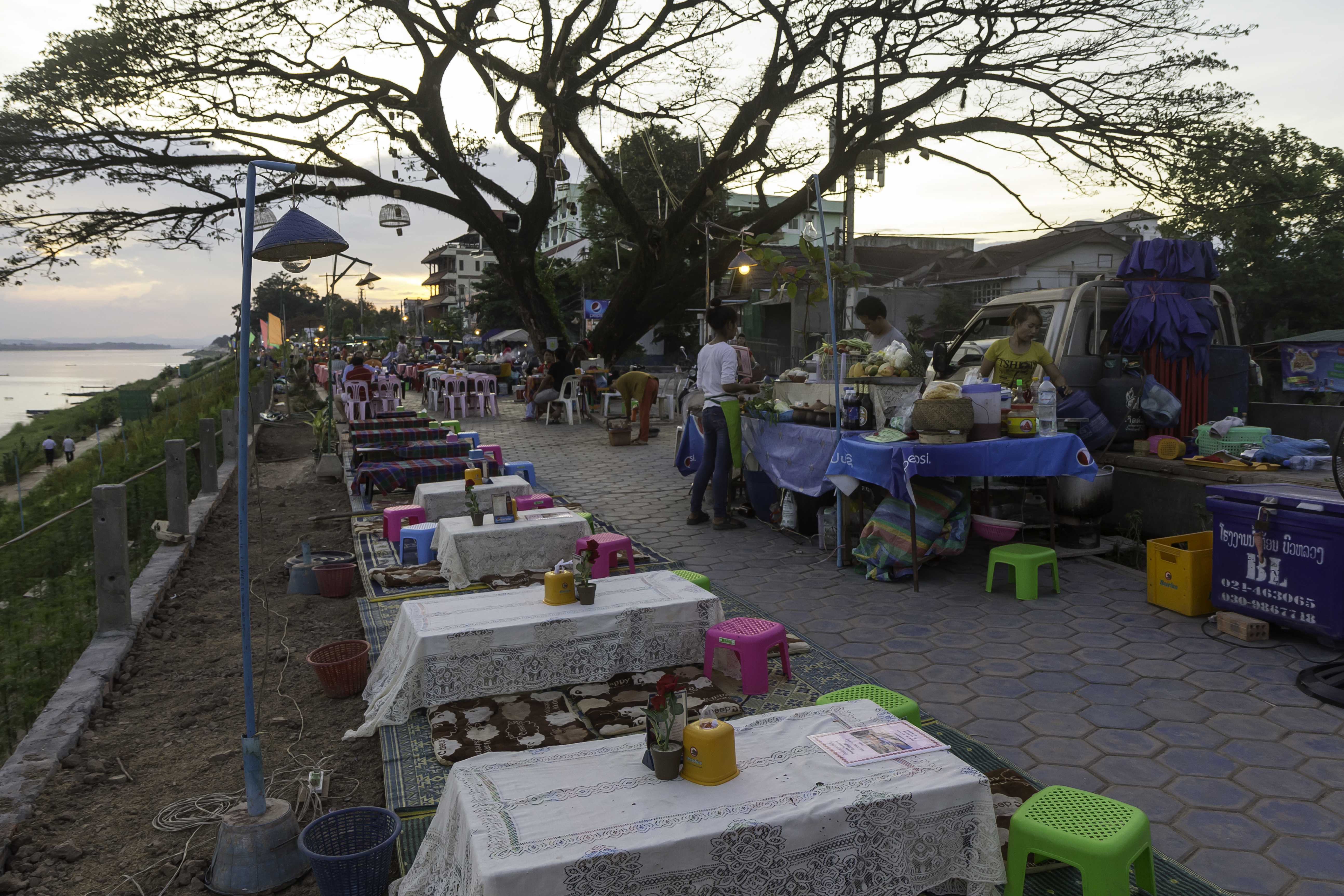 Vientiane riverfront